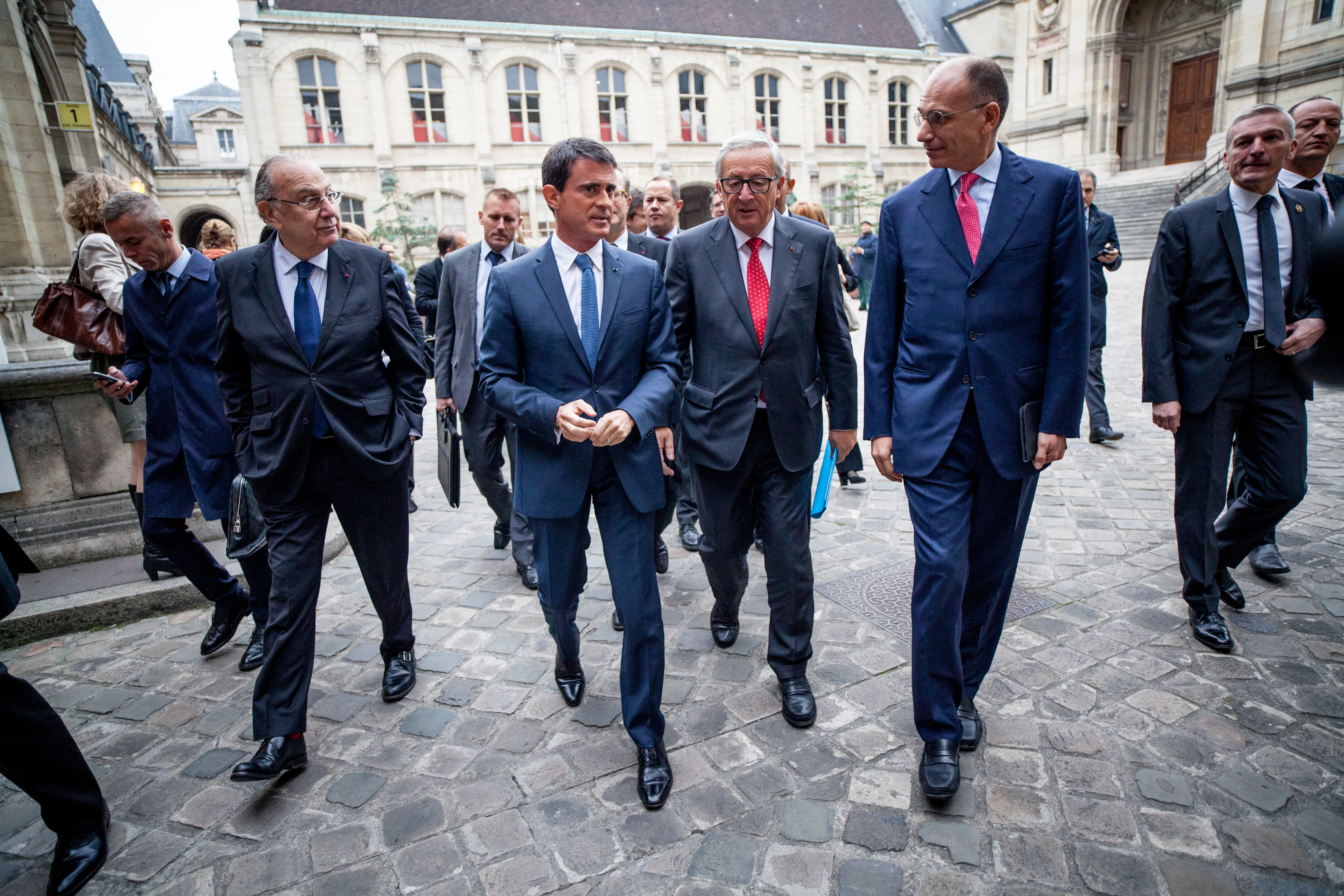 Paris, 7 October 2016 - The political future of the EU